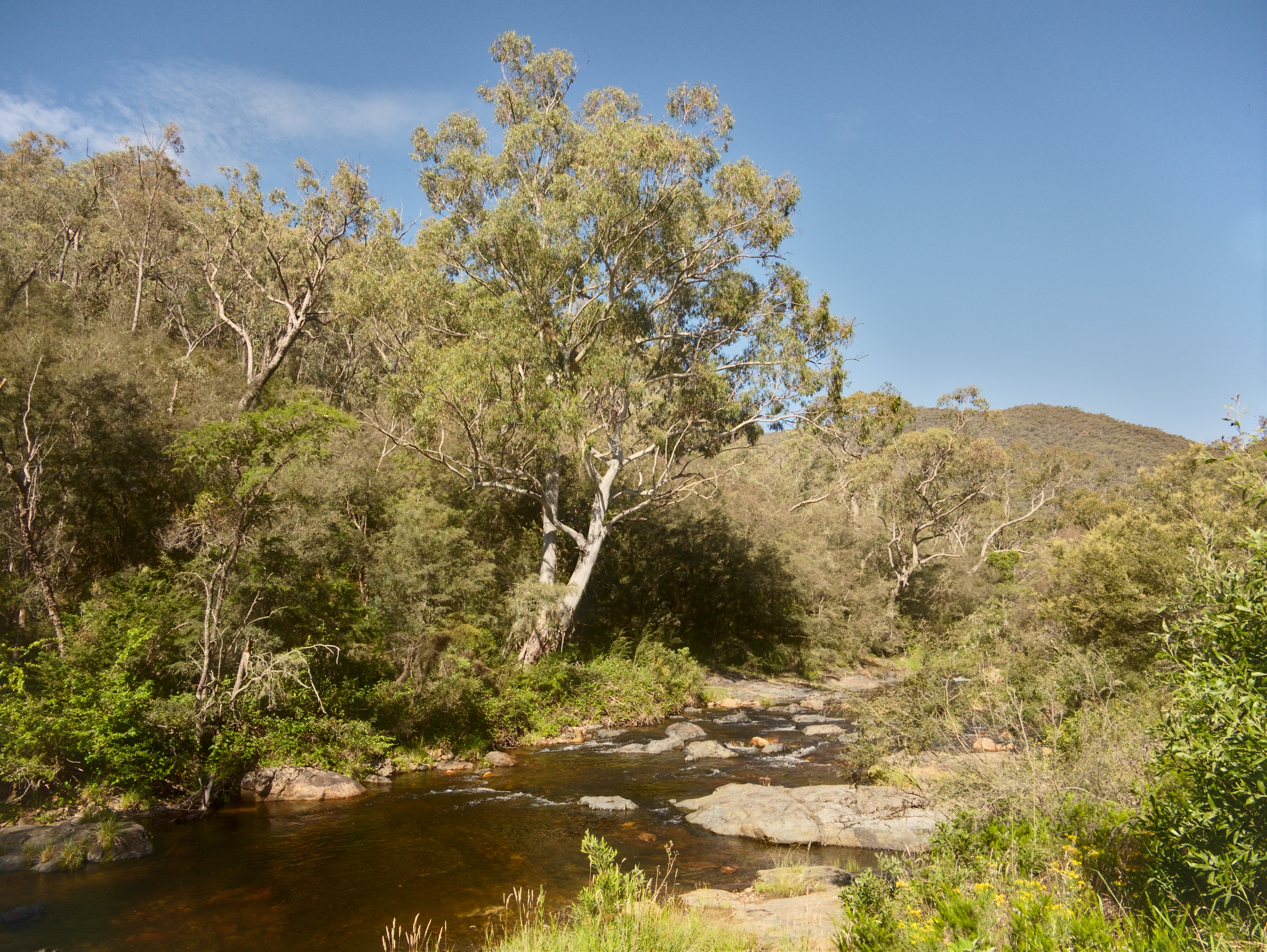 Jounama Creek on a summer afternoon, near Talbingo NSW.